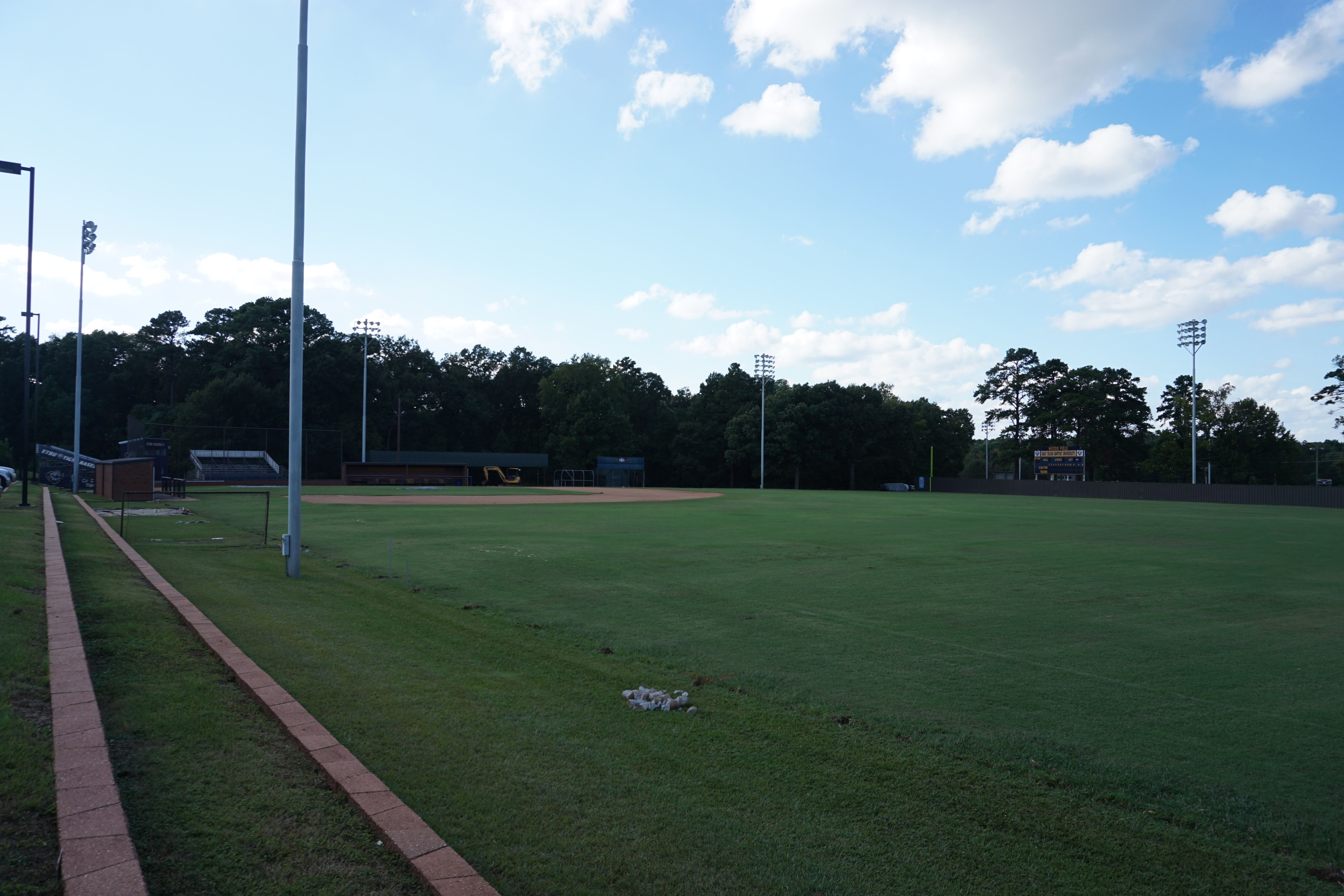 Woods Baseball Field on the campus of East Texas Baptist University in Marshall, Texas (United States).